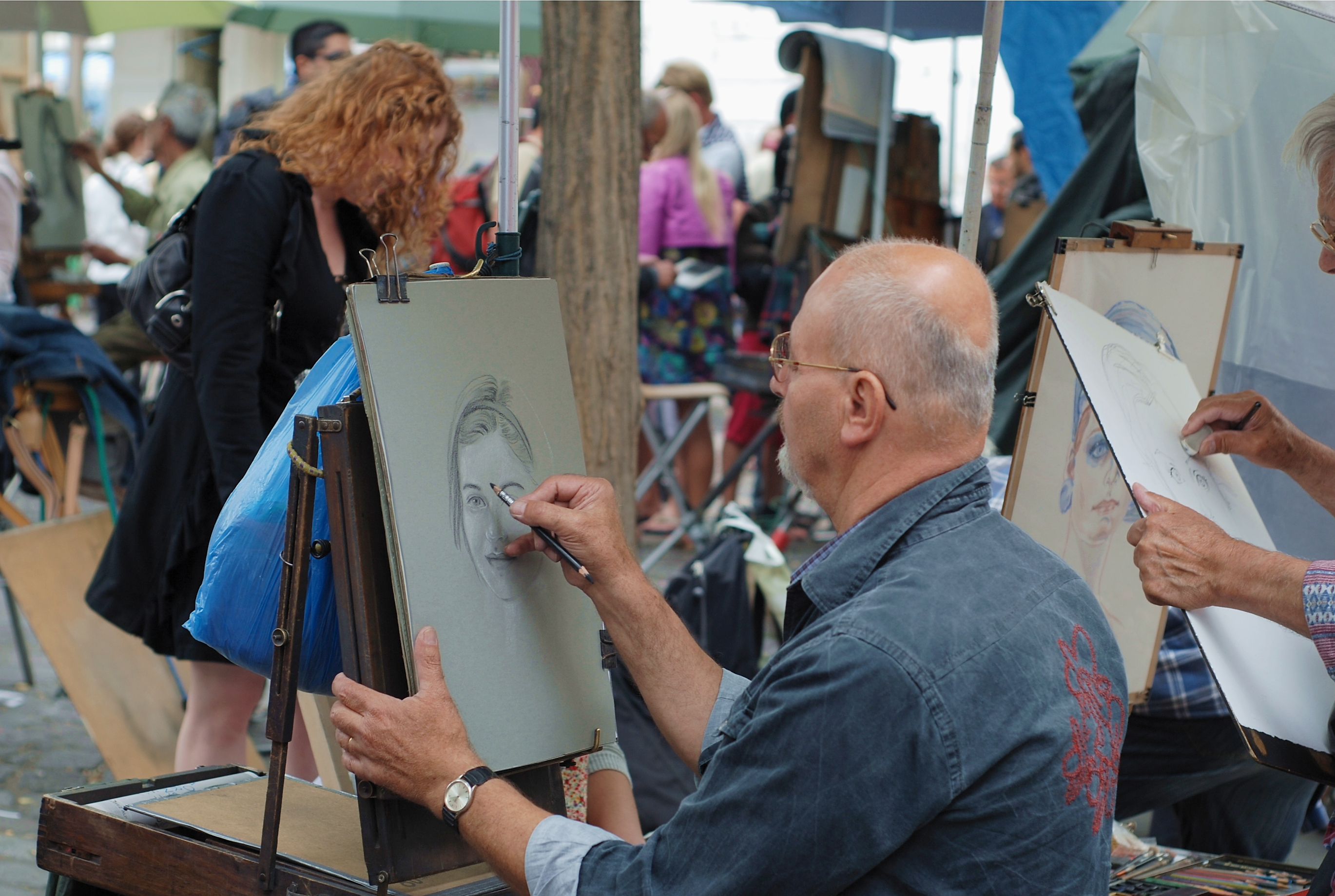 Street portraitist, Place du Tertre, XVIIIe arrondissement, Paris, France.